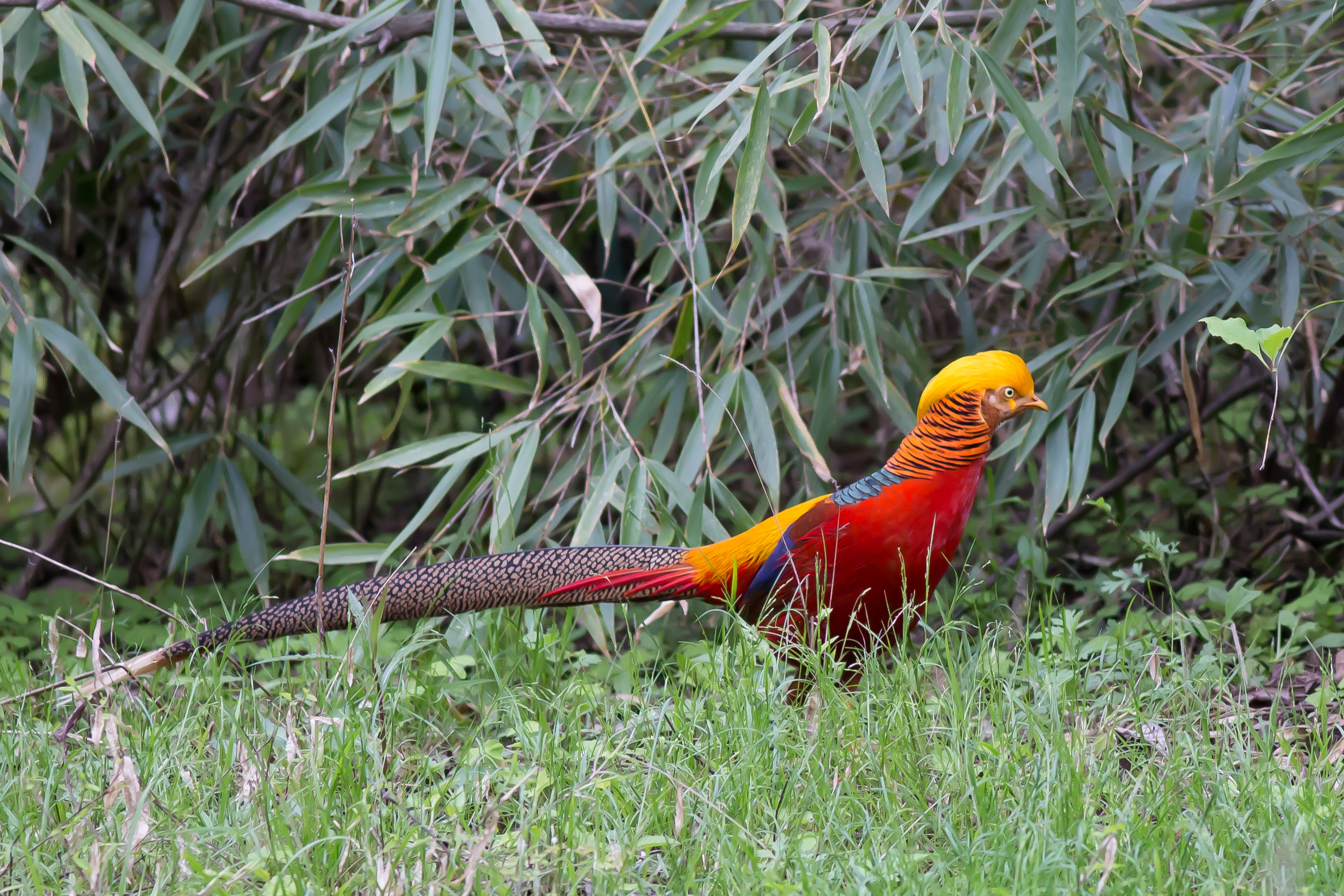 Golden Pheasant, Tangjiahe Nature Reserve, Sichuan, China